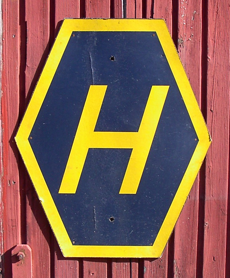 Old swedish road sign used in 1967 to remind drivers about the switch from driving on the left-hand side of the road to the right. The H stands for Högertrafik, the Swedish word for "right-hand traffic"